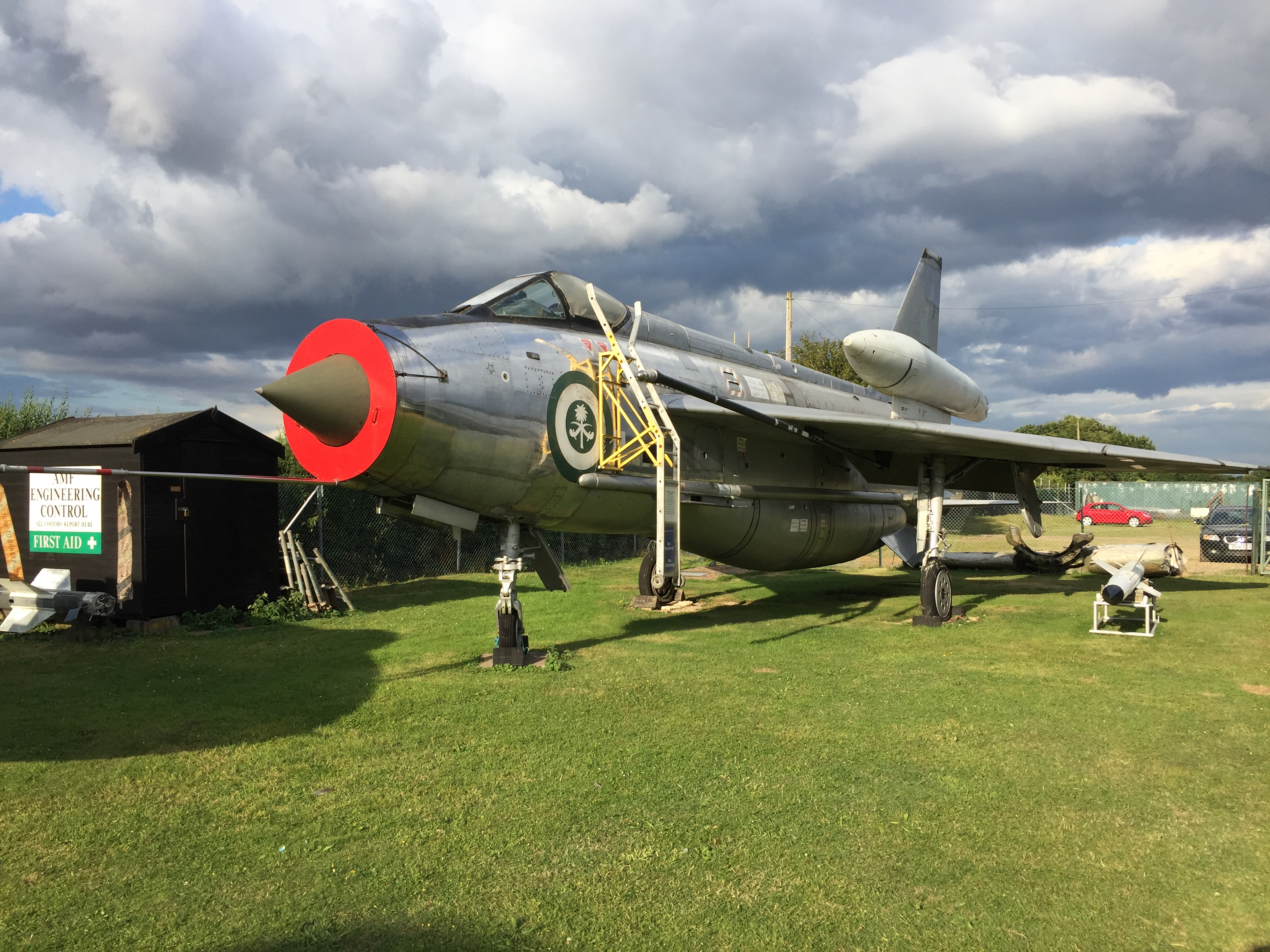 English Electric Lightning F.53 53-686 (ZF592) with dark, ominous clouds